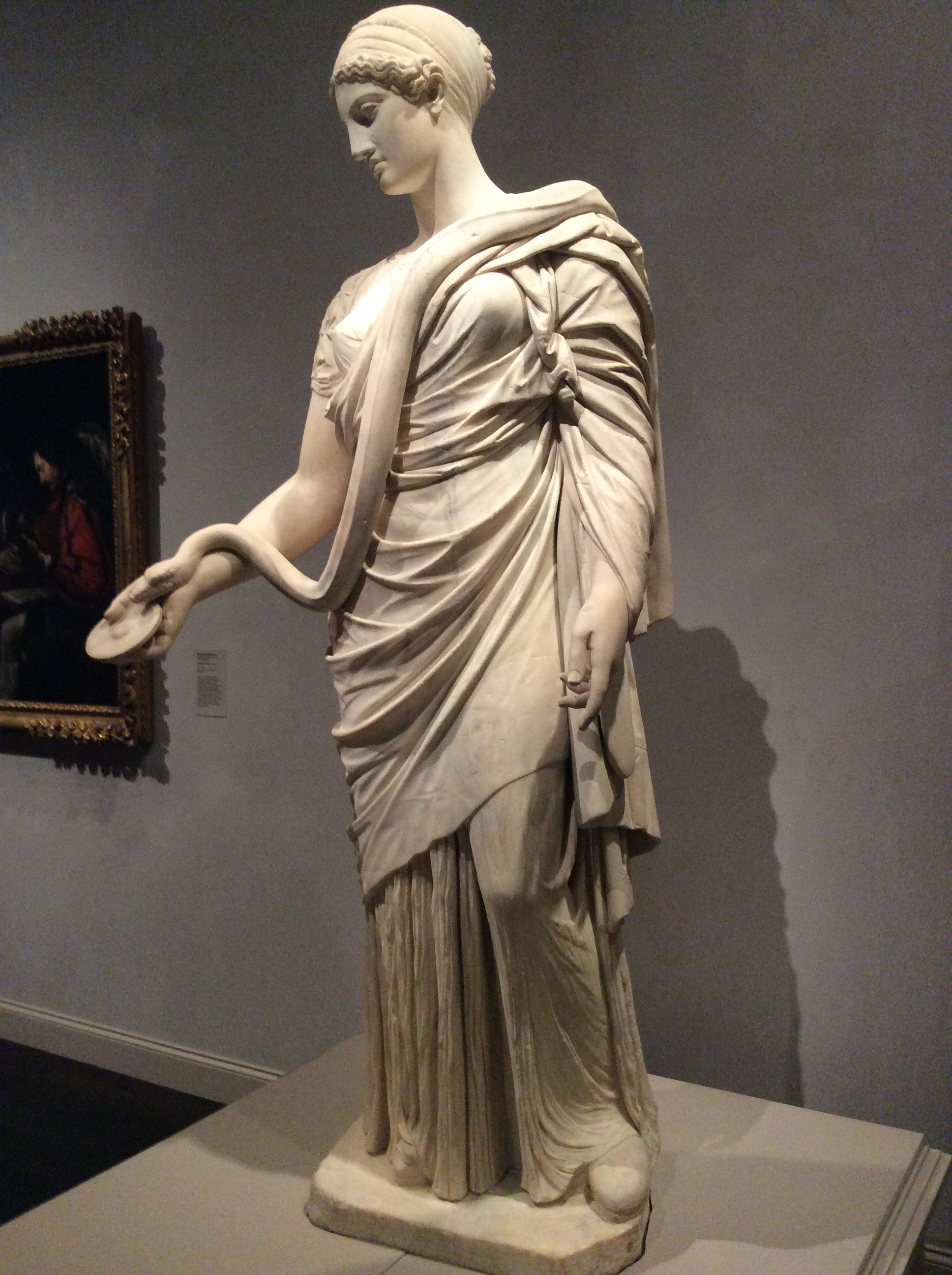 The Hope Hygieia. Roman, 2nd-century copy (c.130-161) after a Greek original of c. 360BC. Marble. William Randolph Hearst Collection. In LACMA, Los Angeles